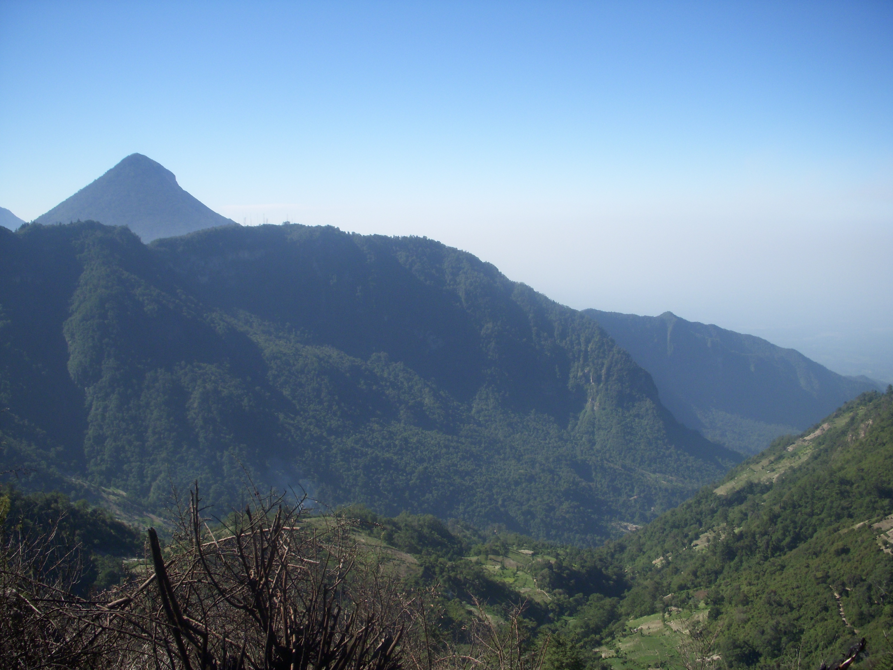 This is a view of Santa Maria and the Rio Ocos watershed from the ridge of Volcan Siete Orejas.